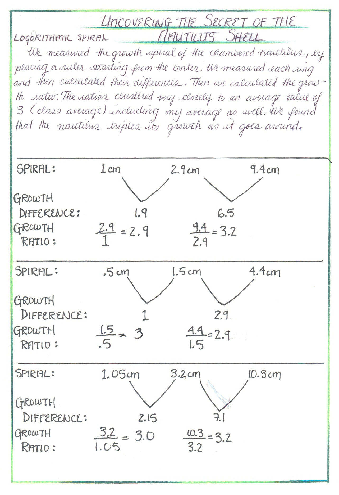 This is work from a Waldorf high school student exploring the logarithmic spiral underlying the Nautilus